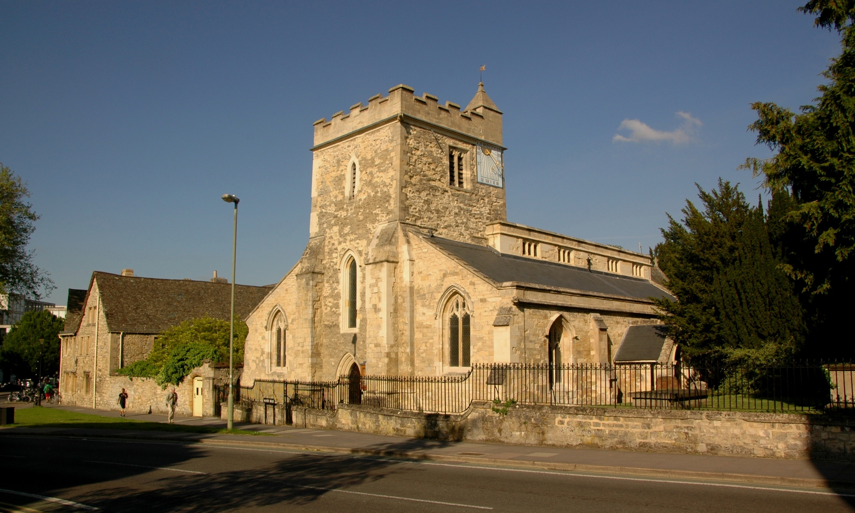 Former Church of England parish church of St Cross, Manor Road, Oxford: now part of Balliol College